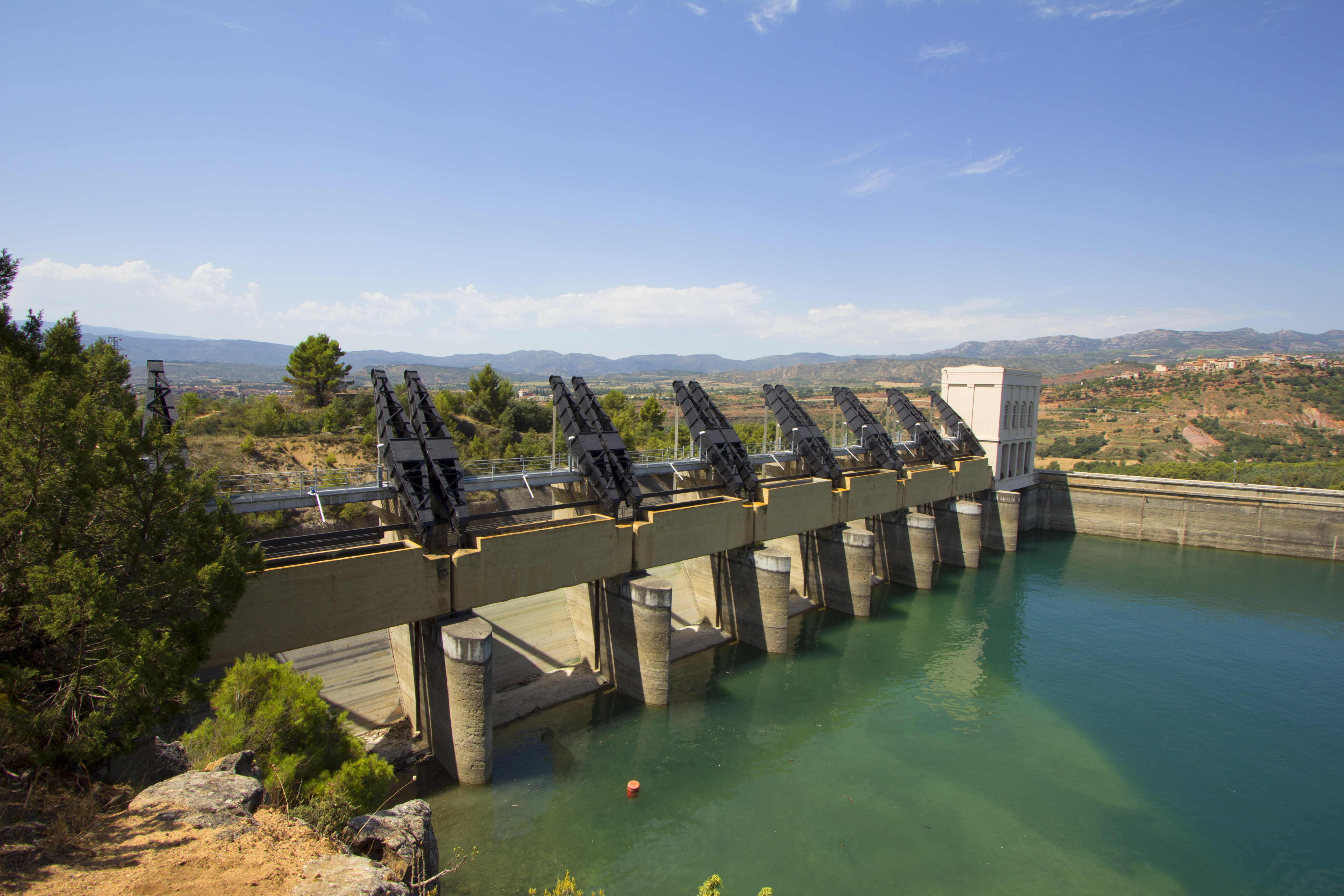 Sant Antoni dam gates and spillway, Talarn hydroelectric power plant, (Catalan Pyrenees)